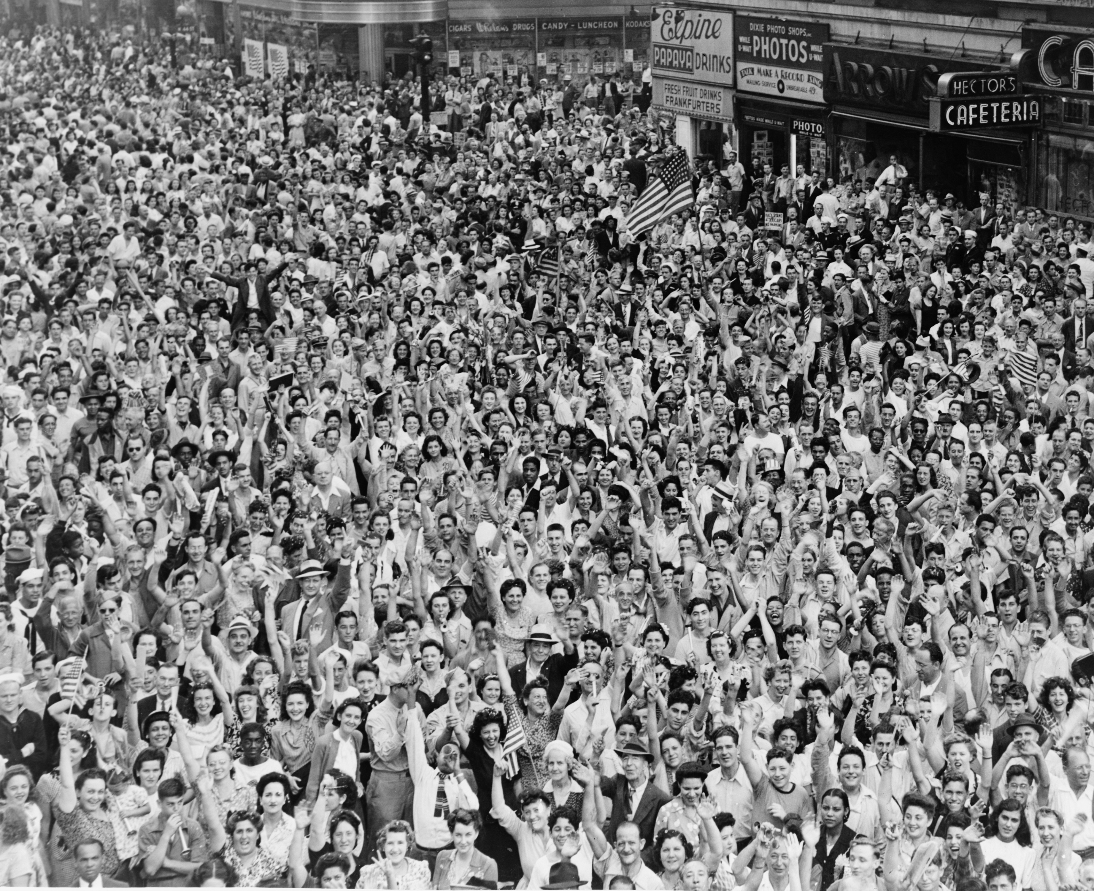 Crowd of people, many waving, in Times Square on V-J Day at time of announcement of the Japanese surrender in 1945 / World-Telegram photo by Dick DeMarsico.